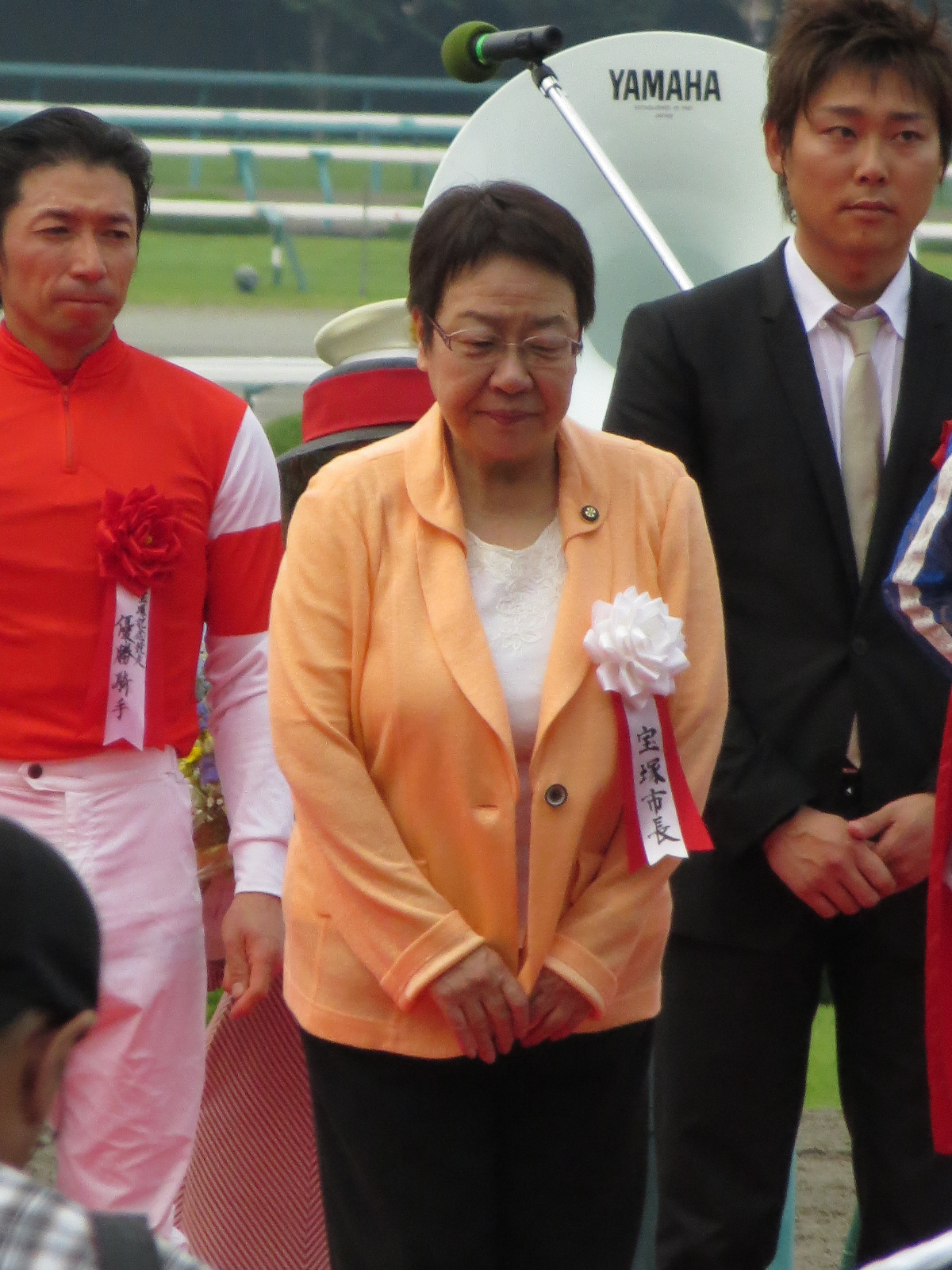 Tomoko Nakagawa (Social Democratic Party of Japan politician, Mayor of Takarazuka, Hyōgo) from 54th Takarazuka Kinen.